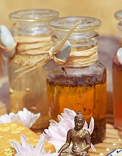 Pogostemon cablin